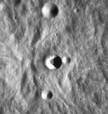 The Lunar Reconnaissance Orbiter's north-up view of Pierazzo, the sharp-looking bowl shaped crater in the centre of the photograph. This crater is surrounded by a very well developed system of bright rays. This bright ejectablanket is only detectable during local noon circumstances (high sun, no shadows, only albedo phenomena)